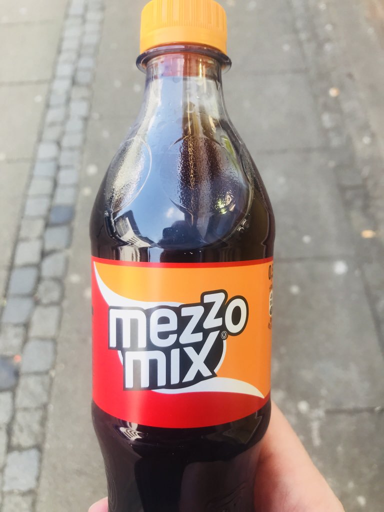 A 500ml Mezzo Mix bottle purchased and photo taken in Bremen, Germany